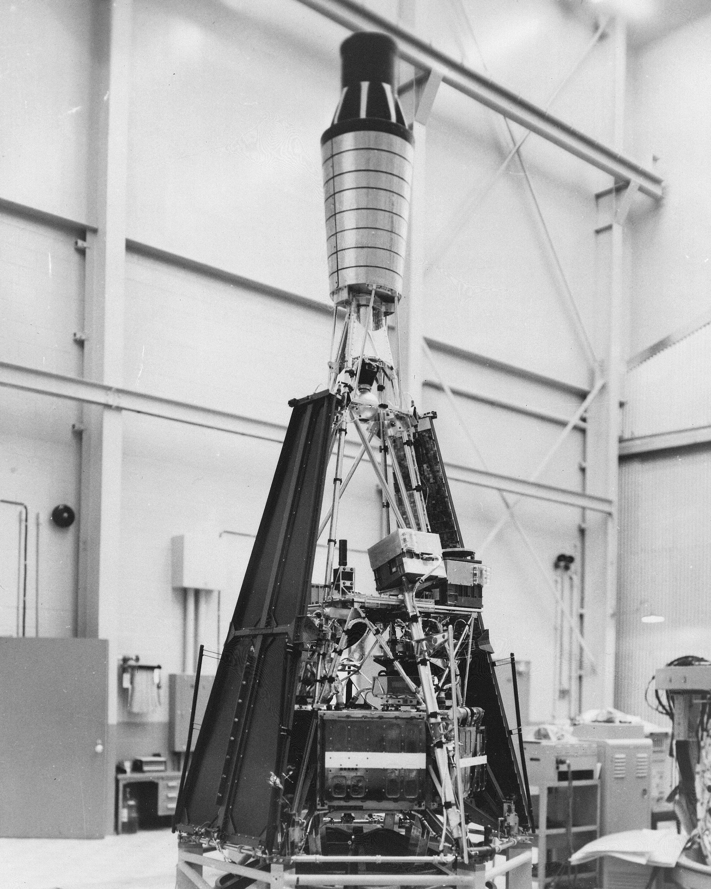 Ranger 2 satellite for use at the Parade of Progress show at the Public Hall Cleveland Ohio.